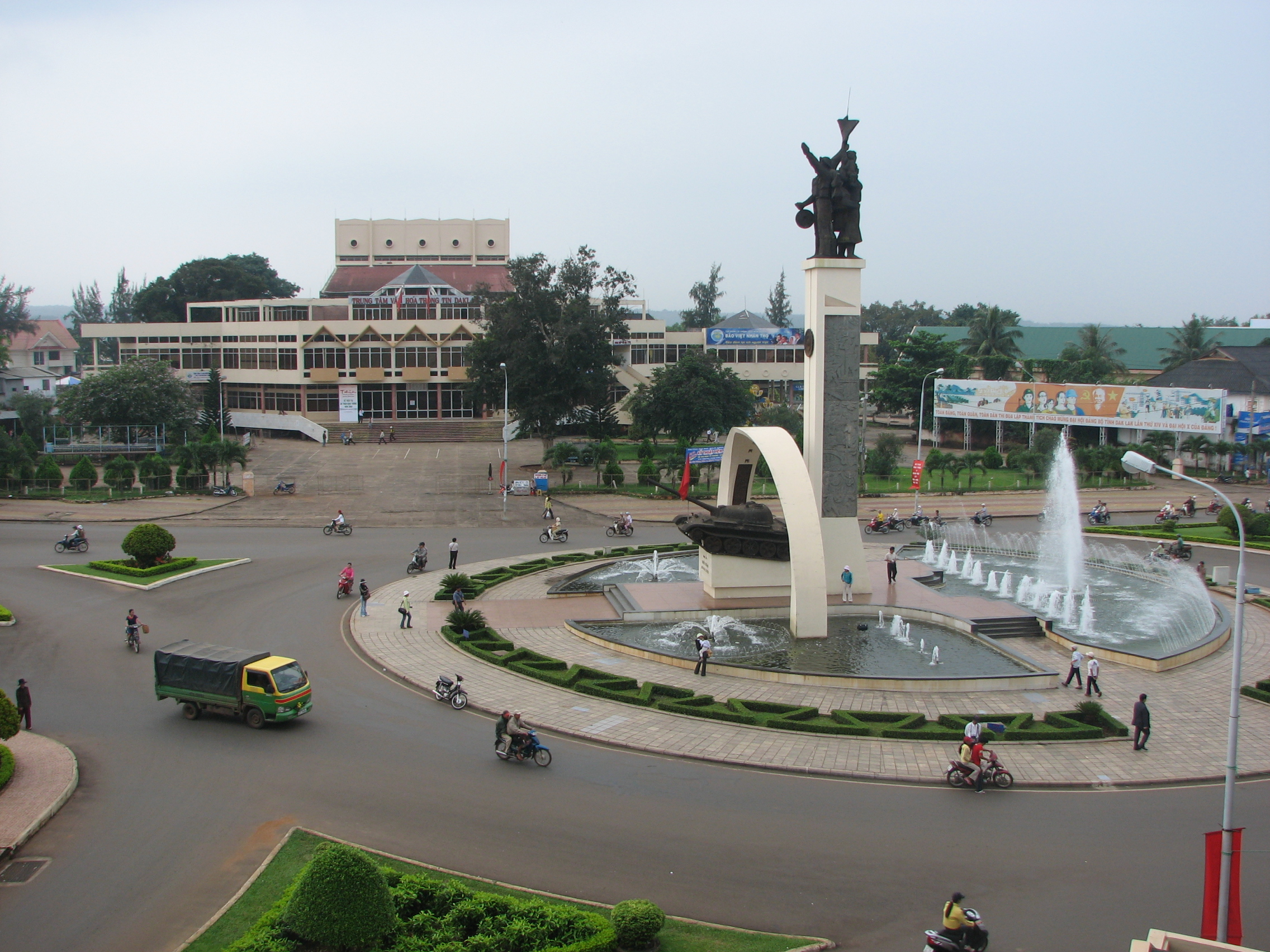 A square in downtown Ban Me Thuot, Vietnam